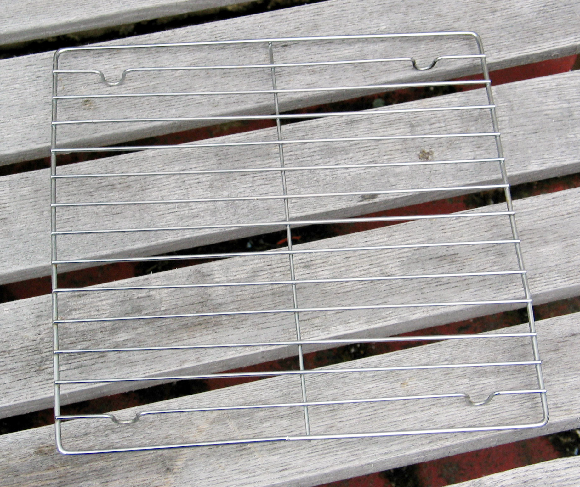 This is a wire rack (also known as a cooling rack).